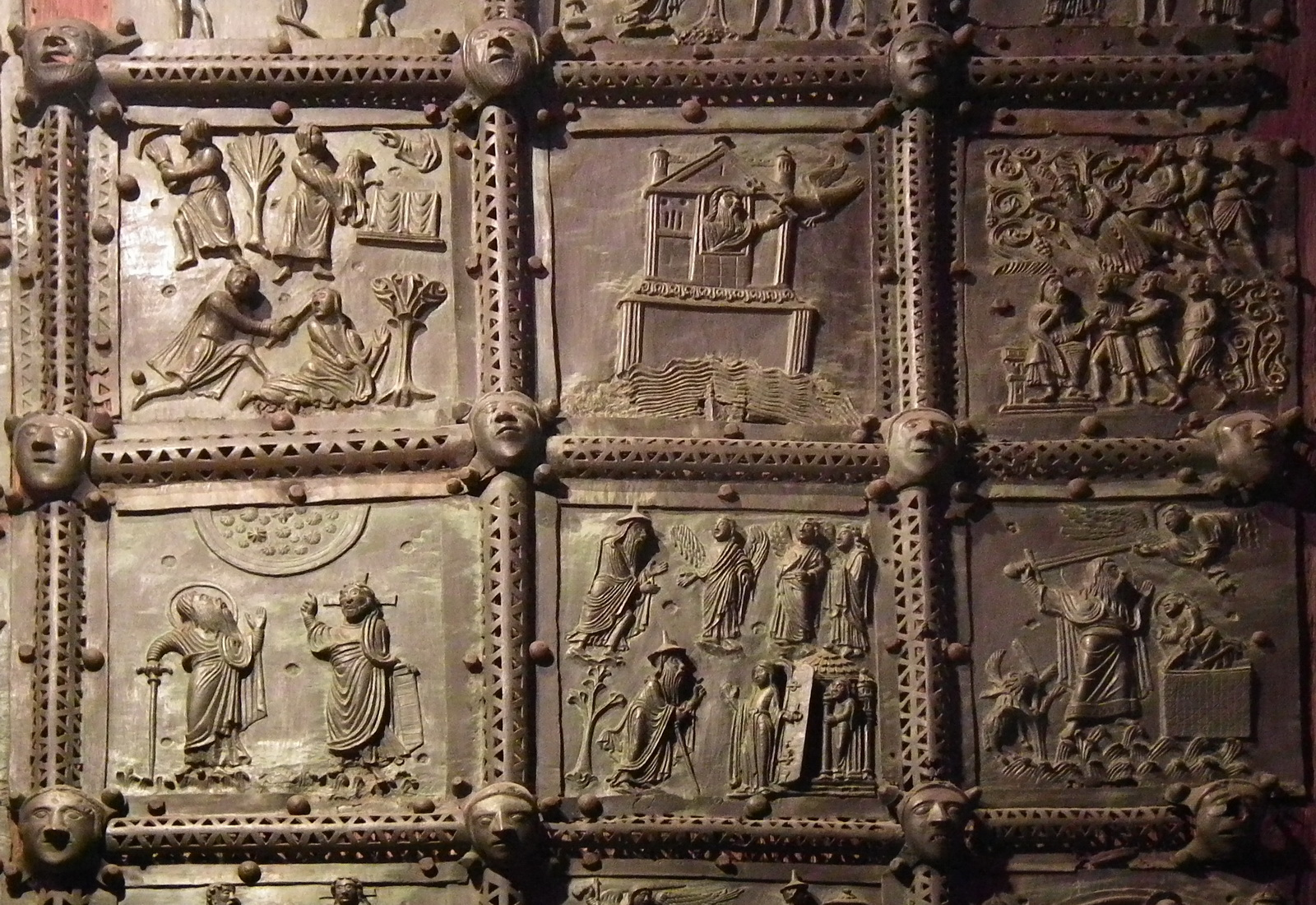 Details on the right panel of the Bronze door. Basilica of San Zeno, Verona Native nameBasilica di San ZenoLocationVerona, Veneto, ItalyCoordinates45° 26′ 33″ N, 10° 58′ 45″ E Established12th/13th centuryWebsite